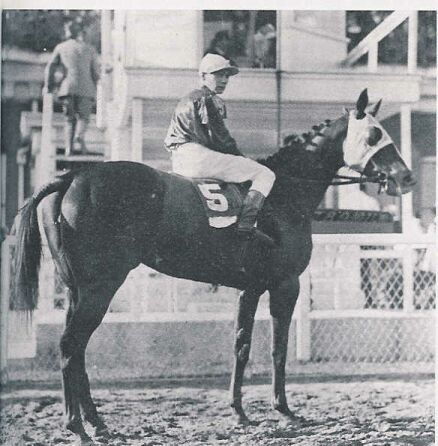 Horse "Pan Zareta" with #5 and jockey. U.S. Race horse, 1910 - 1918